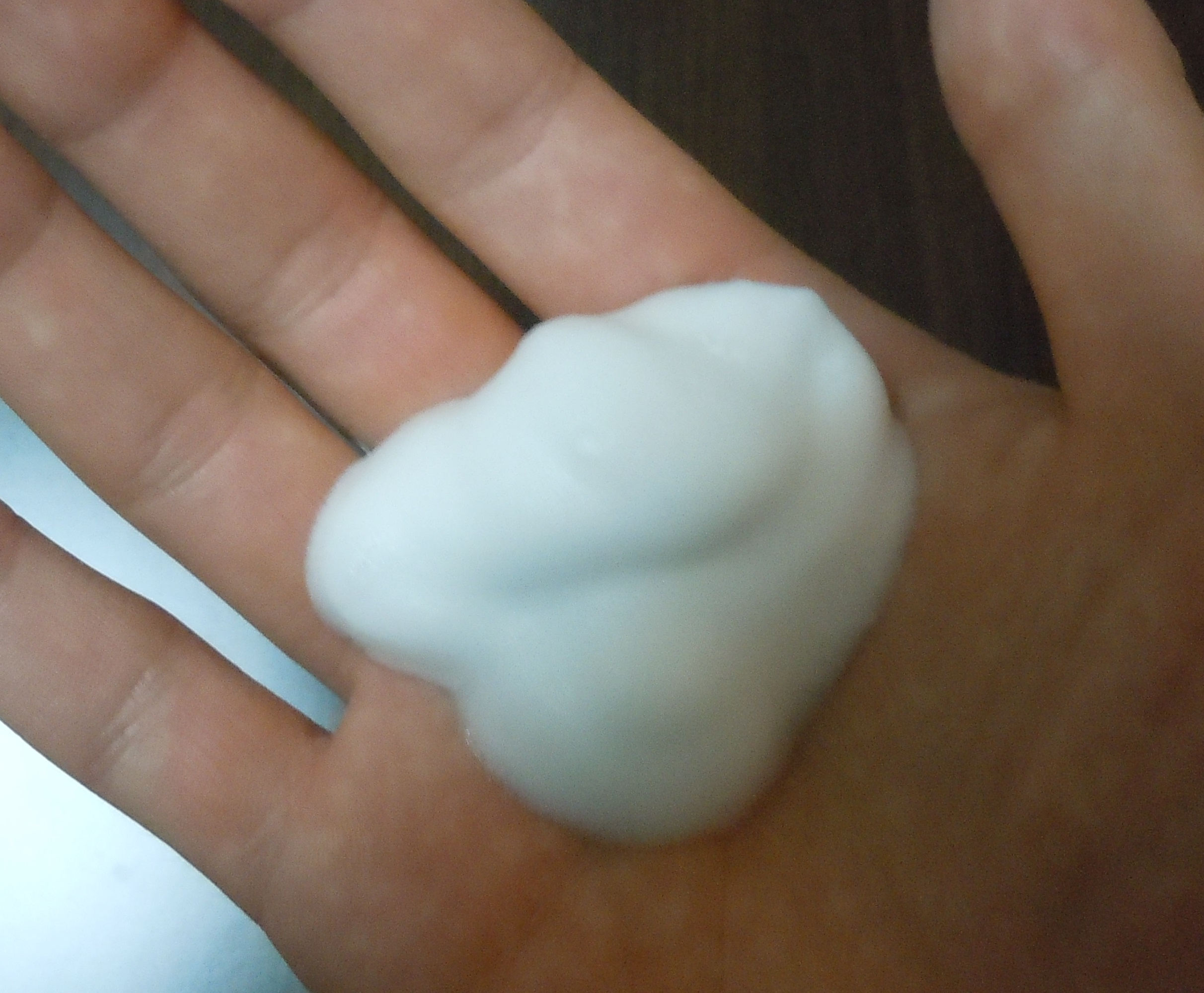 MEN'S Biore. Cleanser for men.